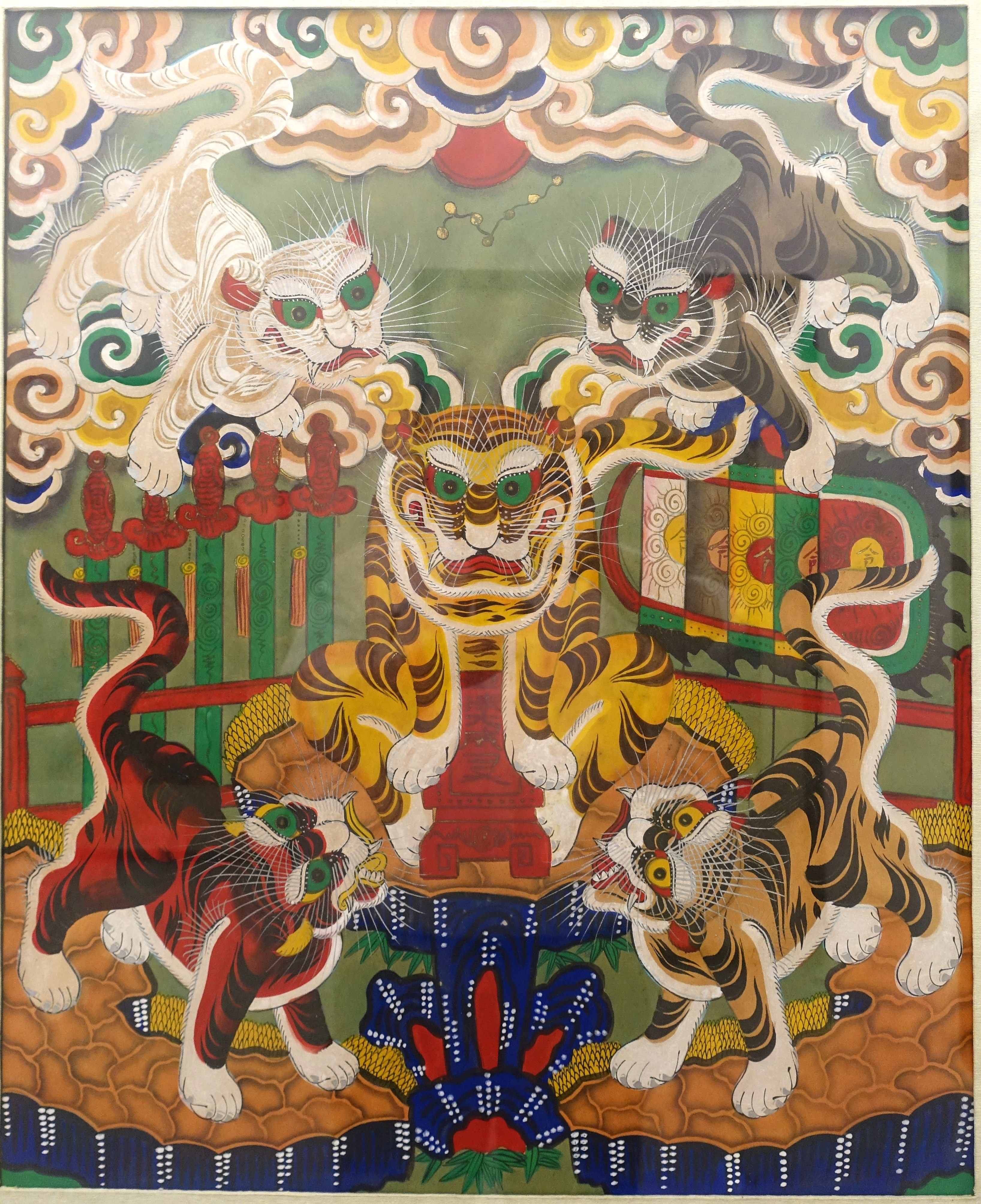 Exhibit in the Vietnam National Museum of Fine Arts - Hanoi, Vietnam. This artwork is old enough so that it is in the public domain.